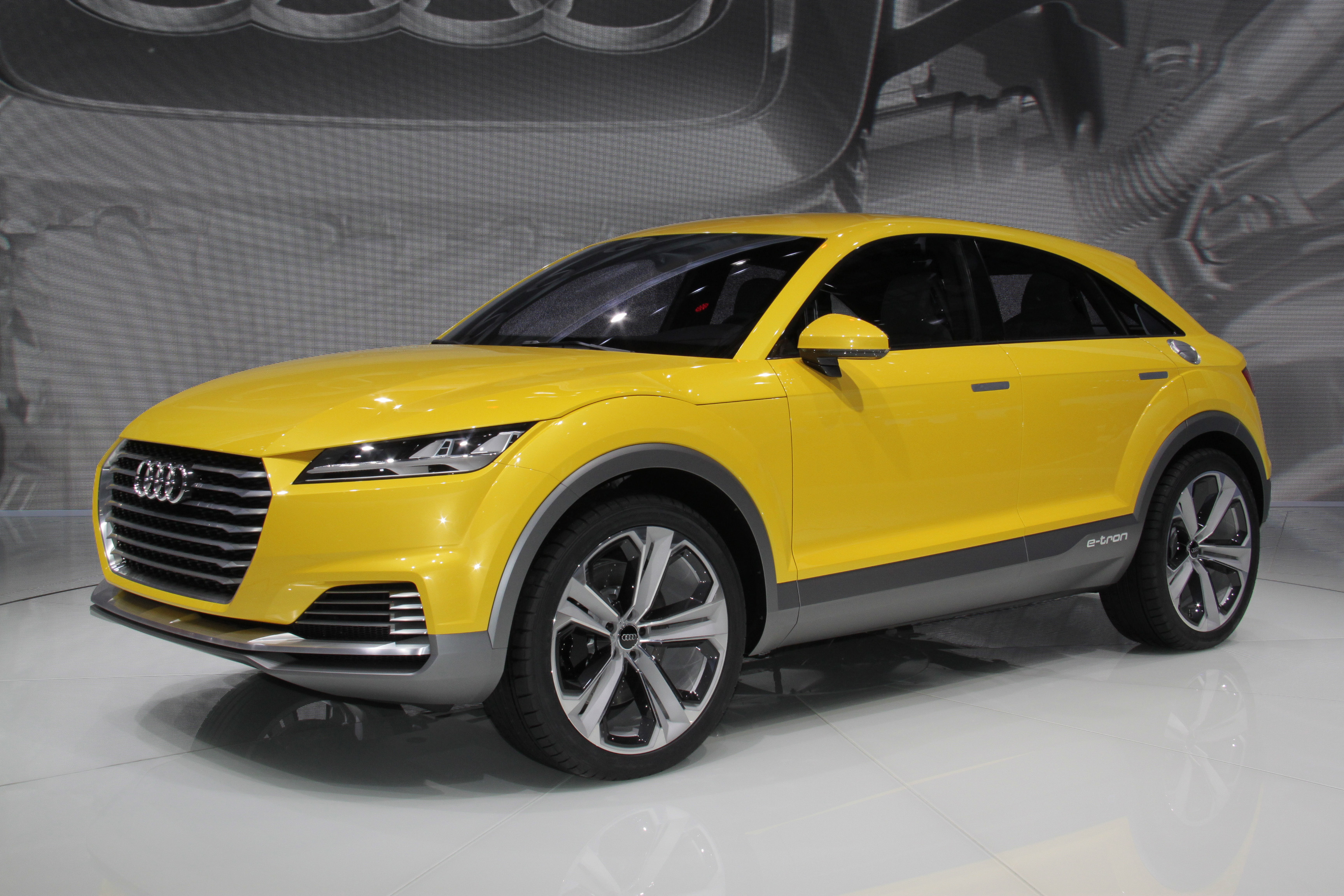 Audi TT Offroad Concept at Auto China 2014 (Beijing)